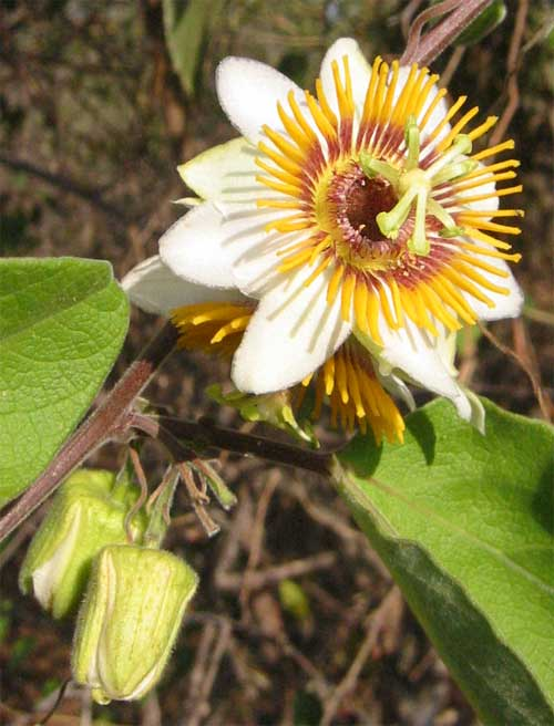 'Passiflora holosericea, growing in Chiapas.